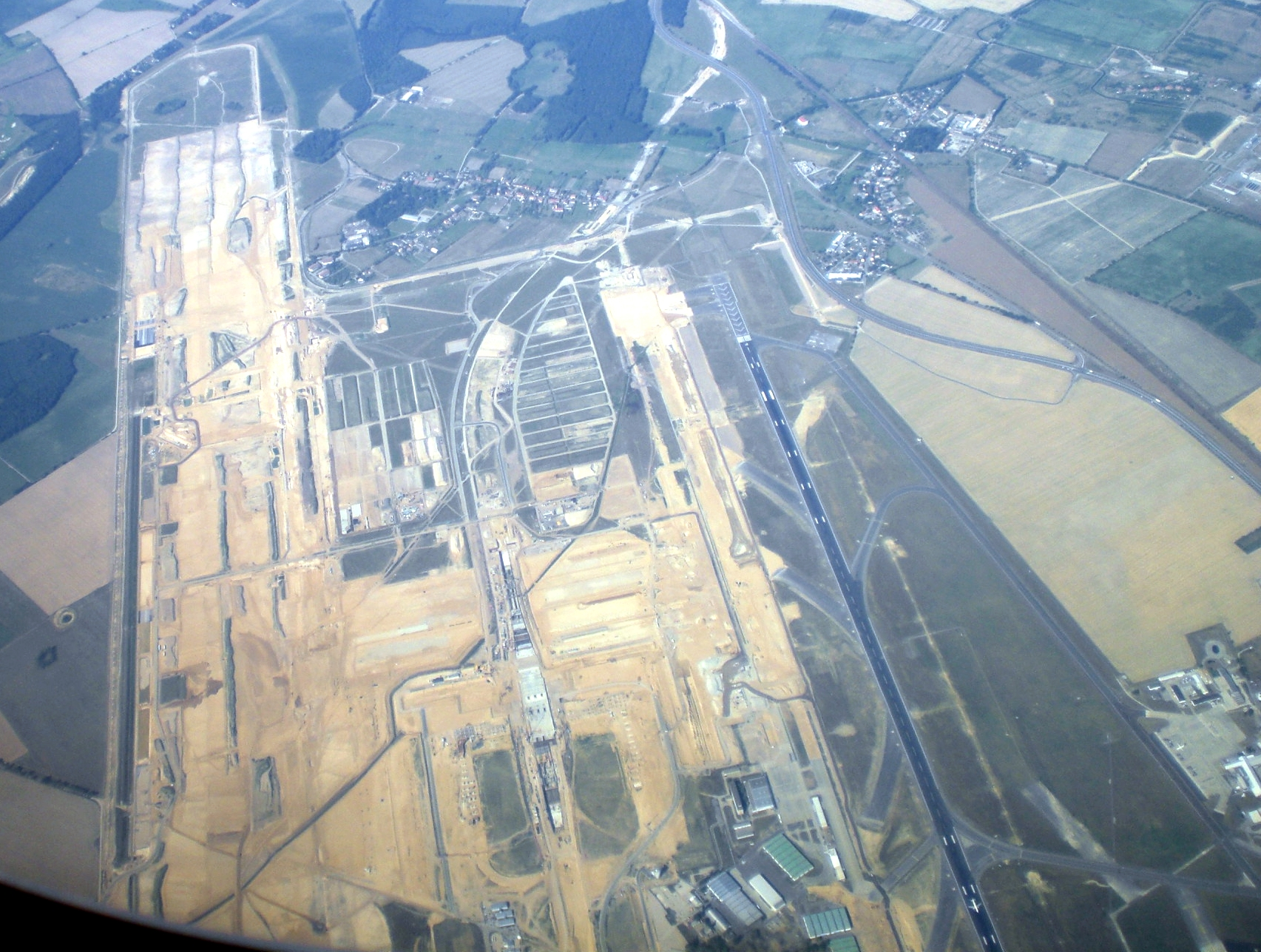 New site of Airport Berlin Brandenburg International (BER), Germany under construction. Old Schönfeld (SXF) facilities on bottom right side. Shot from jetliner.